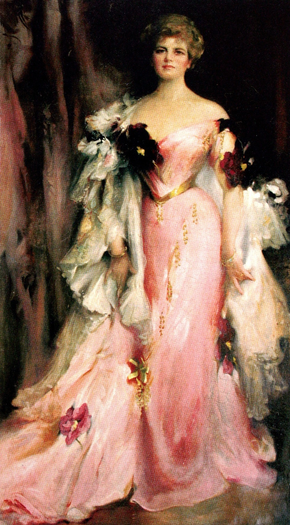 Josephine Dale Lace (died 1937) - Oil on canvas 240 x 130 cm.